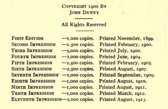 Copyright page with impressions history from early edition of The School and Society